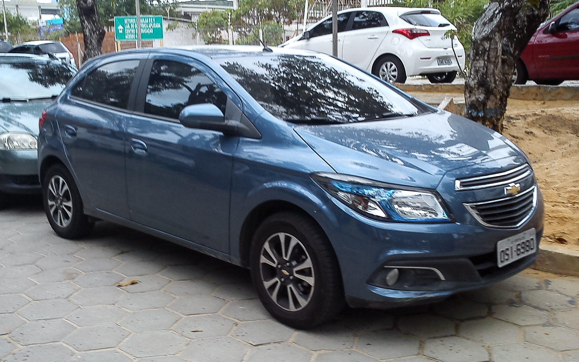 Chevrolet Onix LTZ